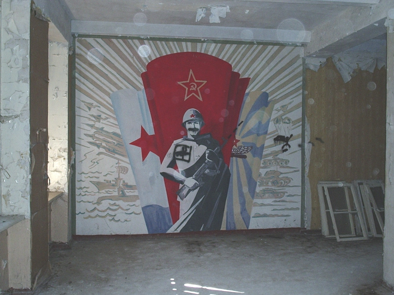 Flying Higher Technical School Niedergörschdorf at Jüterborg / Brandenburg.Plant was from 1933 to 1935 as an Air Force Technical High School for the technical staff of the then newly formed Air Force planned and built.